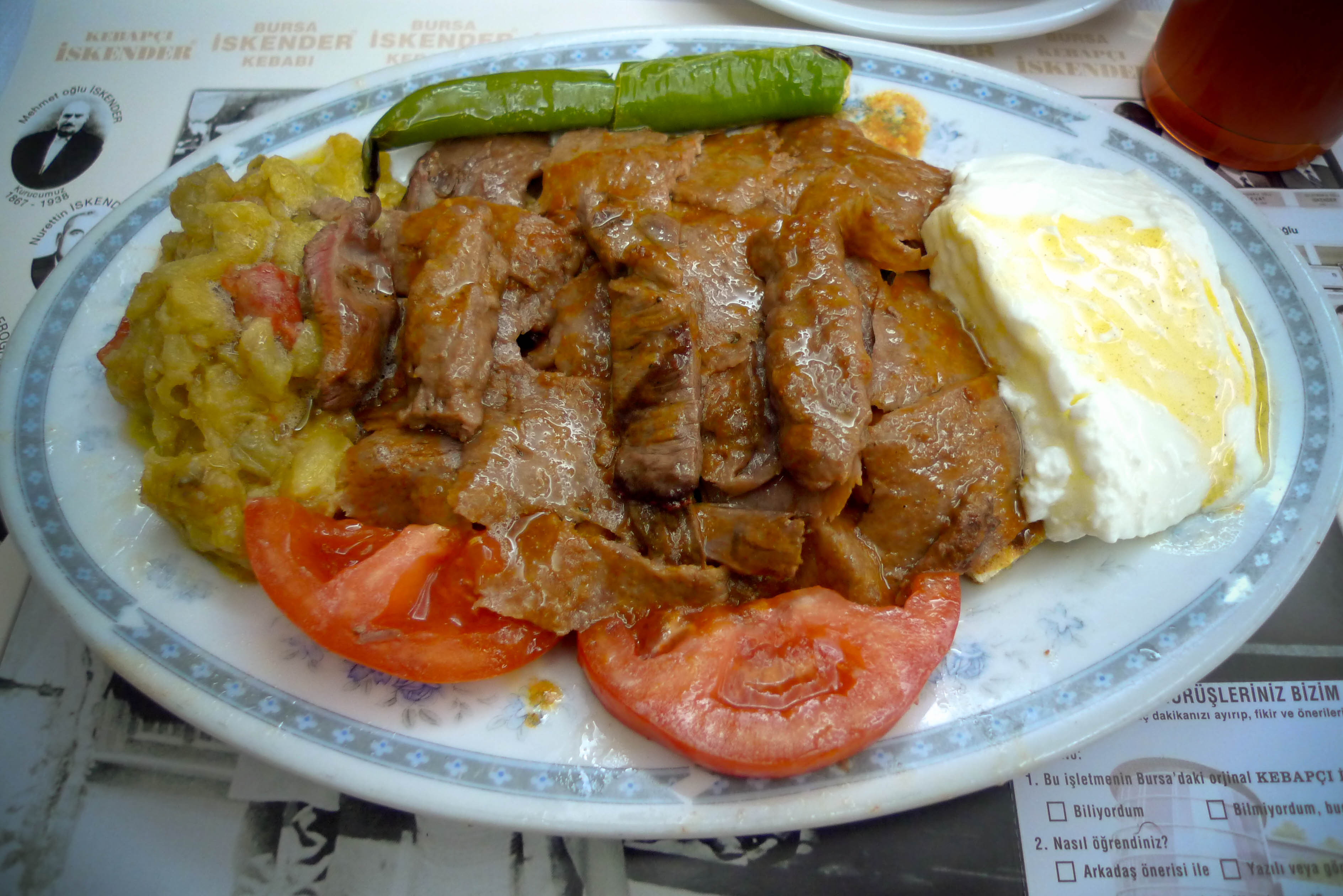 Iskender kebab on plate